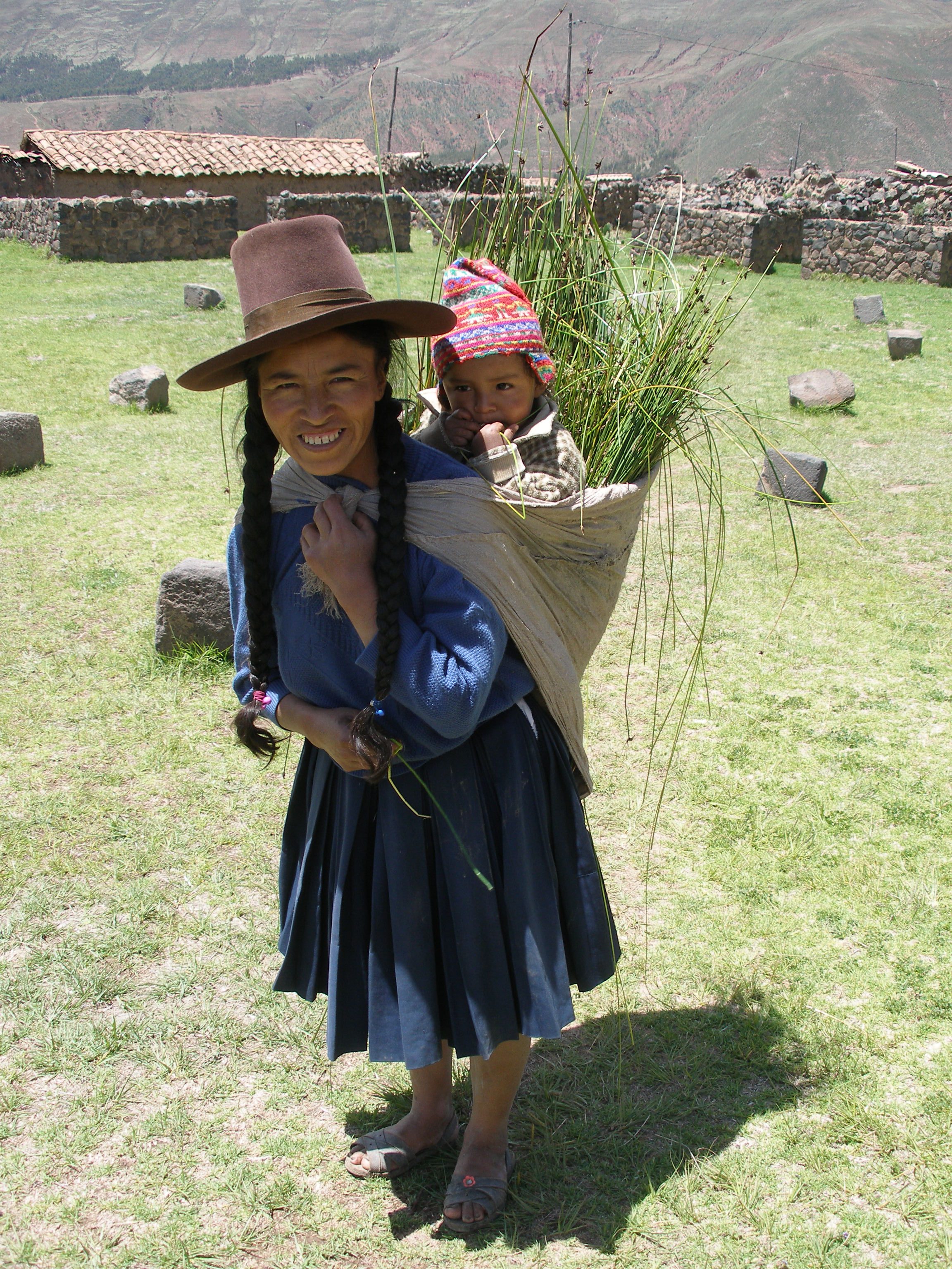 Andean woman and child wearing woolens, Peru